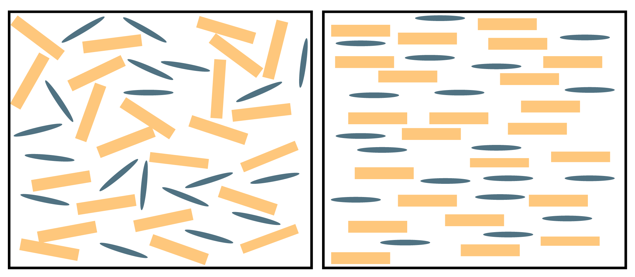 How metamorphosis of rock changes alignment of minerals